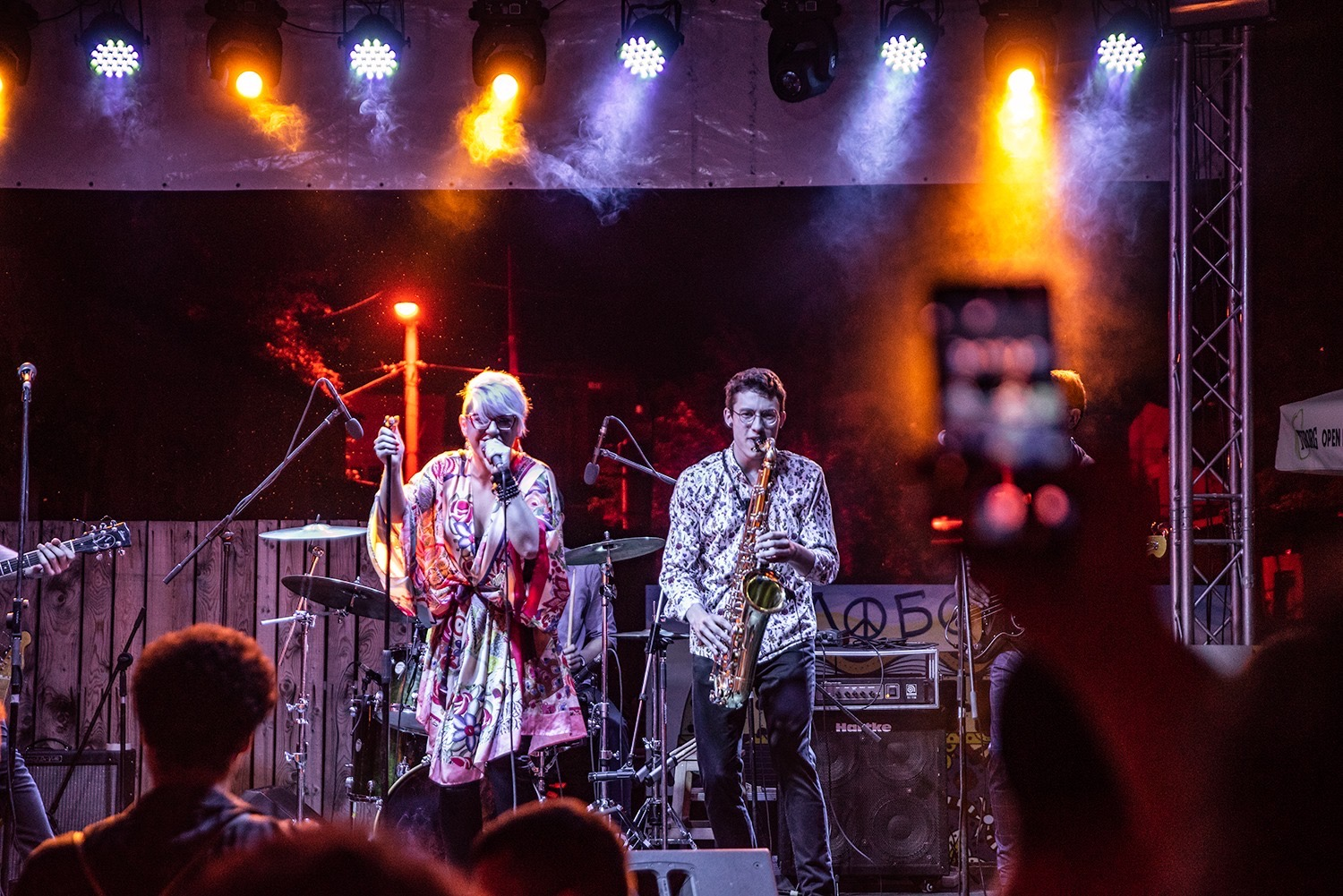 Mikser Festival, Beograd (2019)